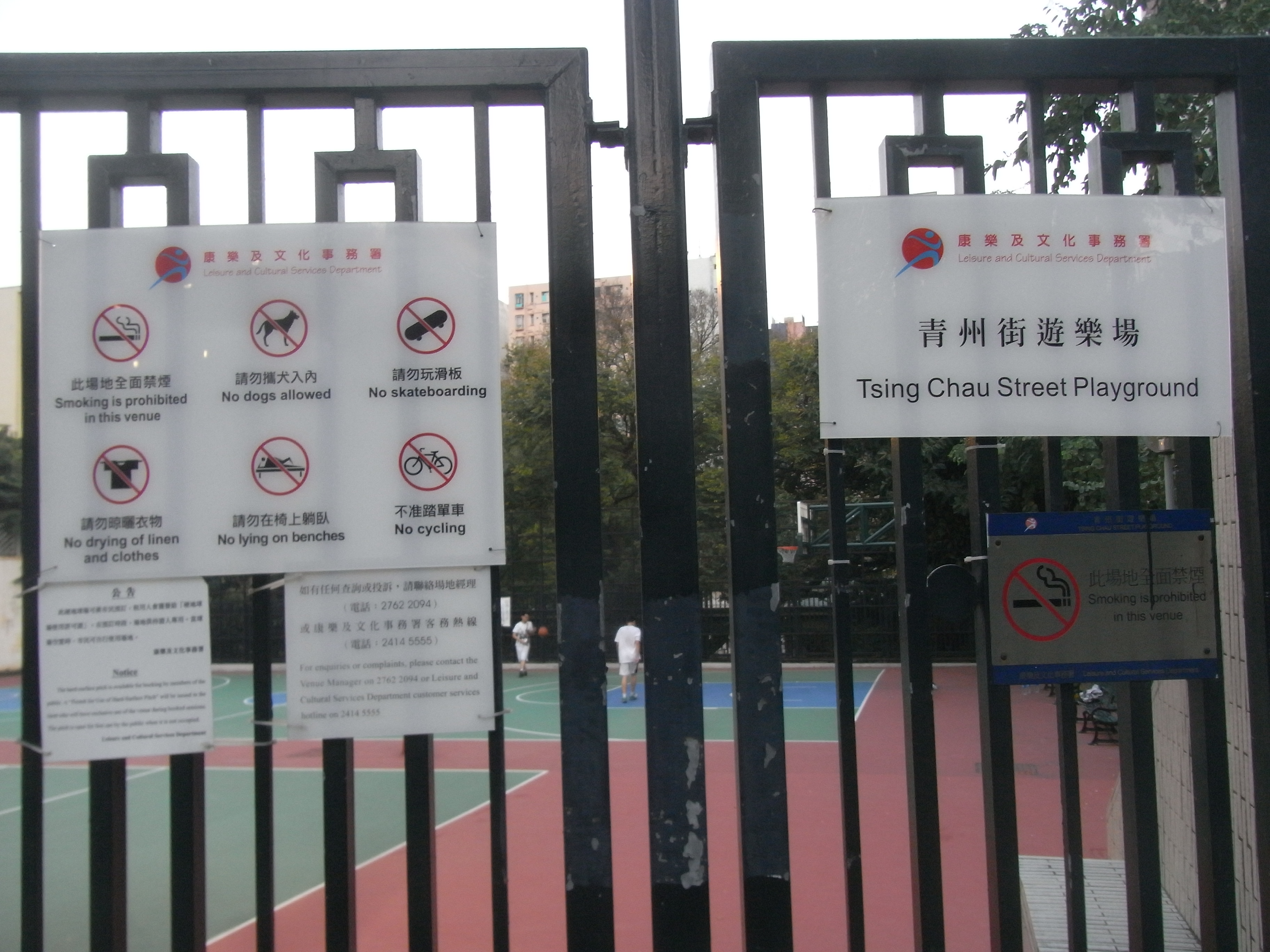 紅磡 青州街青州街 黃昏